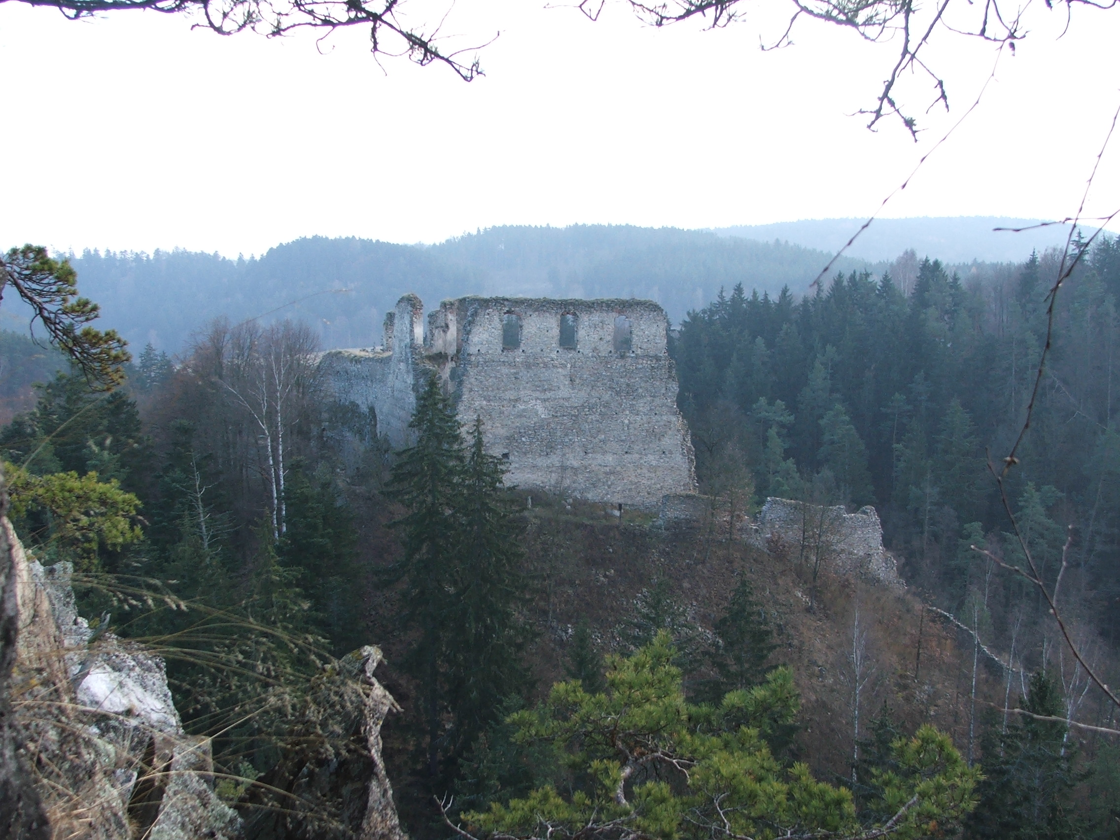 Dívčí Kámen Castle in Bohemia.